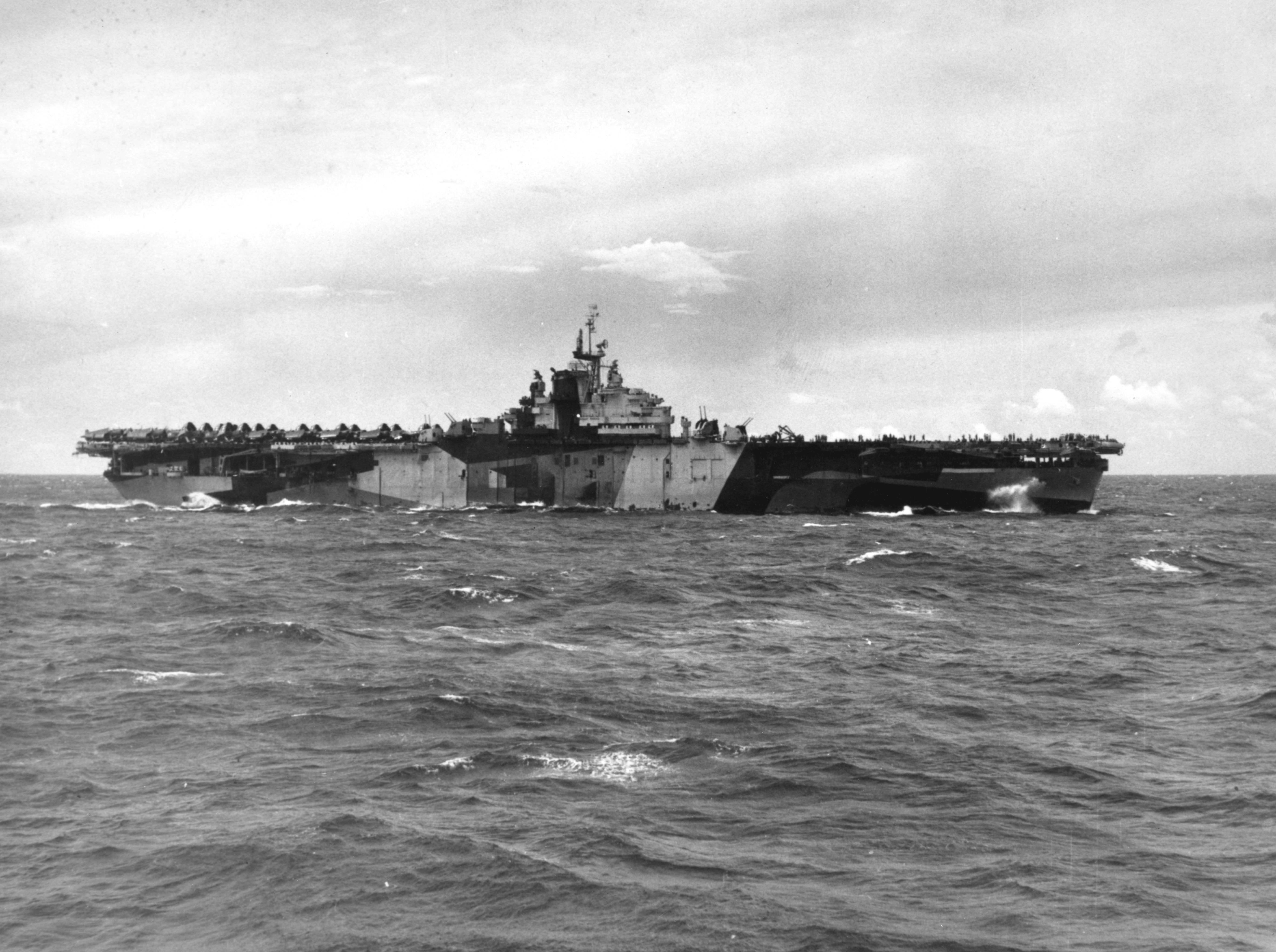 The U.S. Navy aircraft carrier USS Franklin (CV-13) operating near the Marianas, 1 August 1944. Between May 1944 and November 1944, Franklin was the only carrier wearing two different camouflage schemes, Measure 32 Design 3A on the port side, and Design 6A on the starboard side.